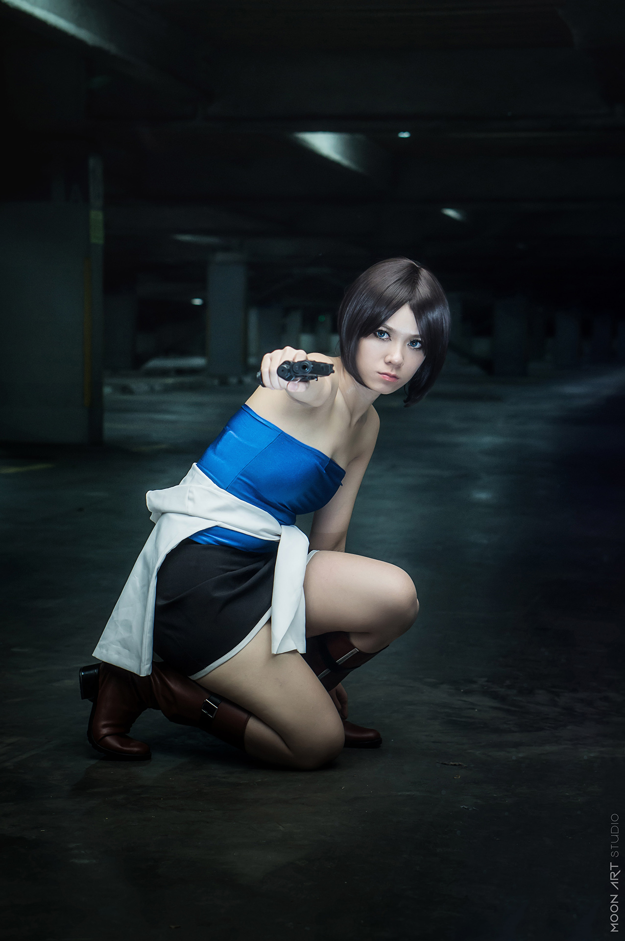 RESIDENT EVIL 3 - NEMESIS バイオハザード3 ラストエスケープ Jill Valentine by - Li Aurica Photographer - Shin Illuits Touched by - Moon Art Studio (2014) Full Album - Click Here